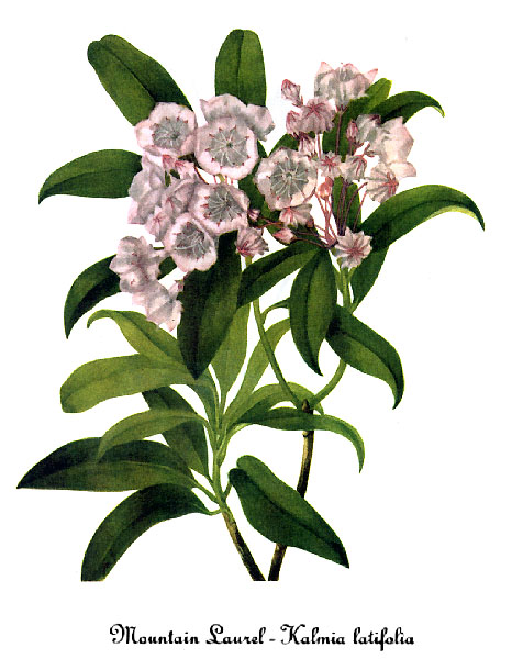 Watercolor painting of Kalmia_latifolia.